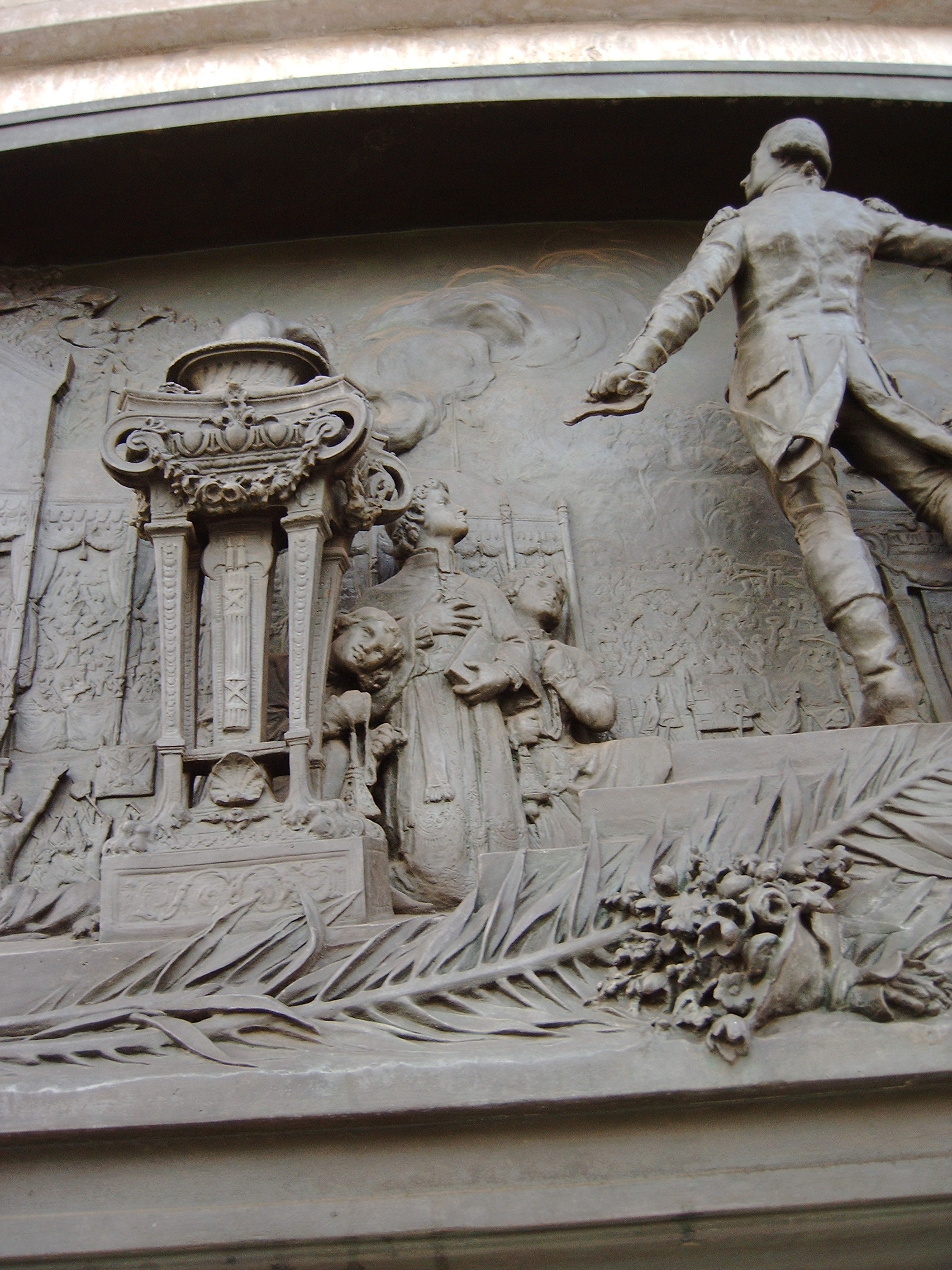 Fête de la Fédération